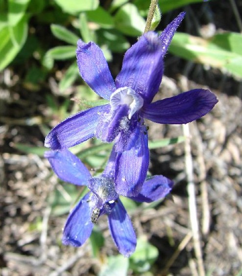 Delphinium andersonii from Cassondra Skinner. Bureau of Land Management. United States, ID, Bureau of Land Management Jarbidge Resource Area. No copyright. Cropped.